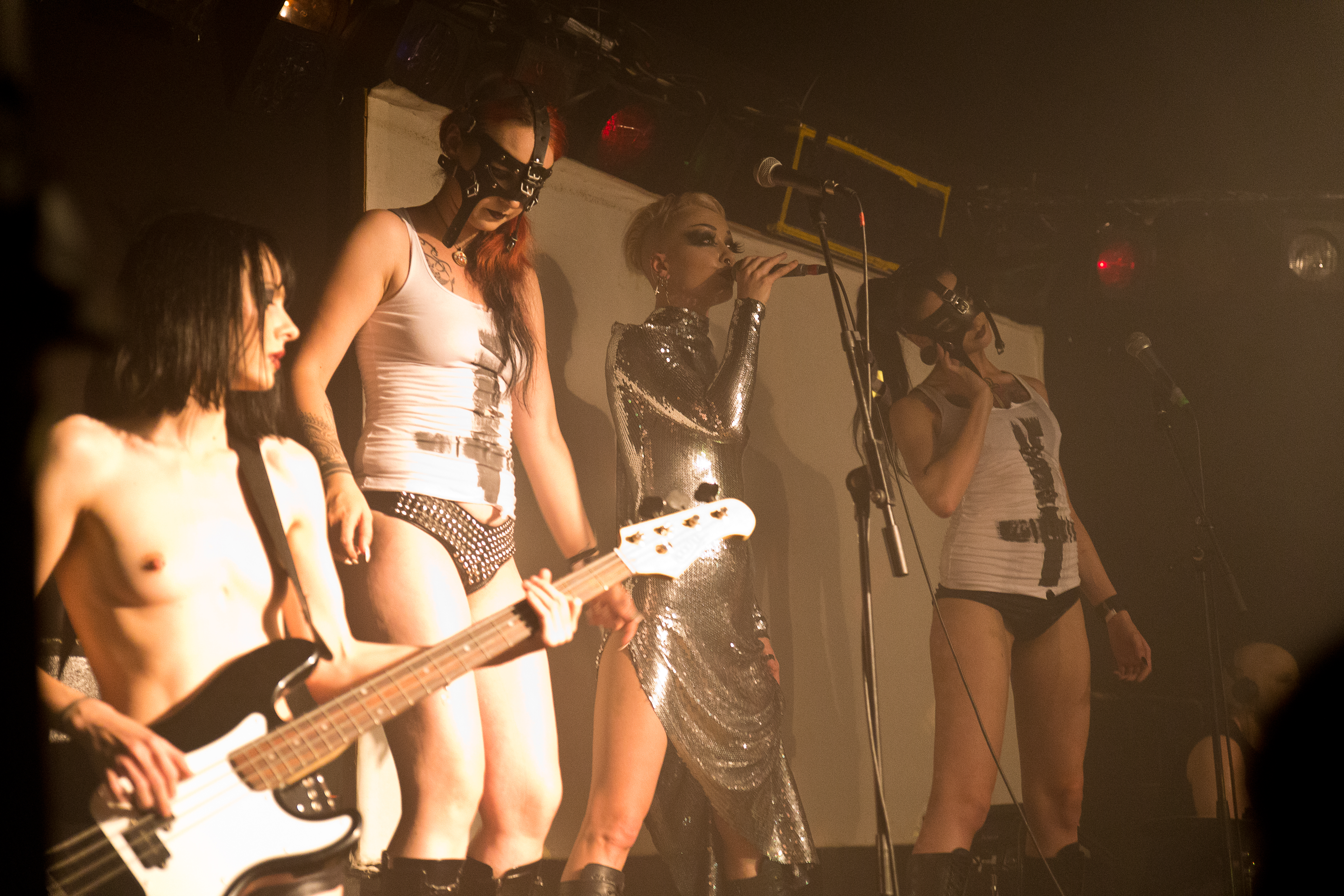 The German electro band Grausame Töchter at the Electronic Transformers Tour 2016 at Hellraiser club in Leipzig(Germany.